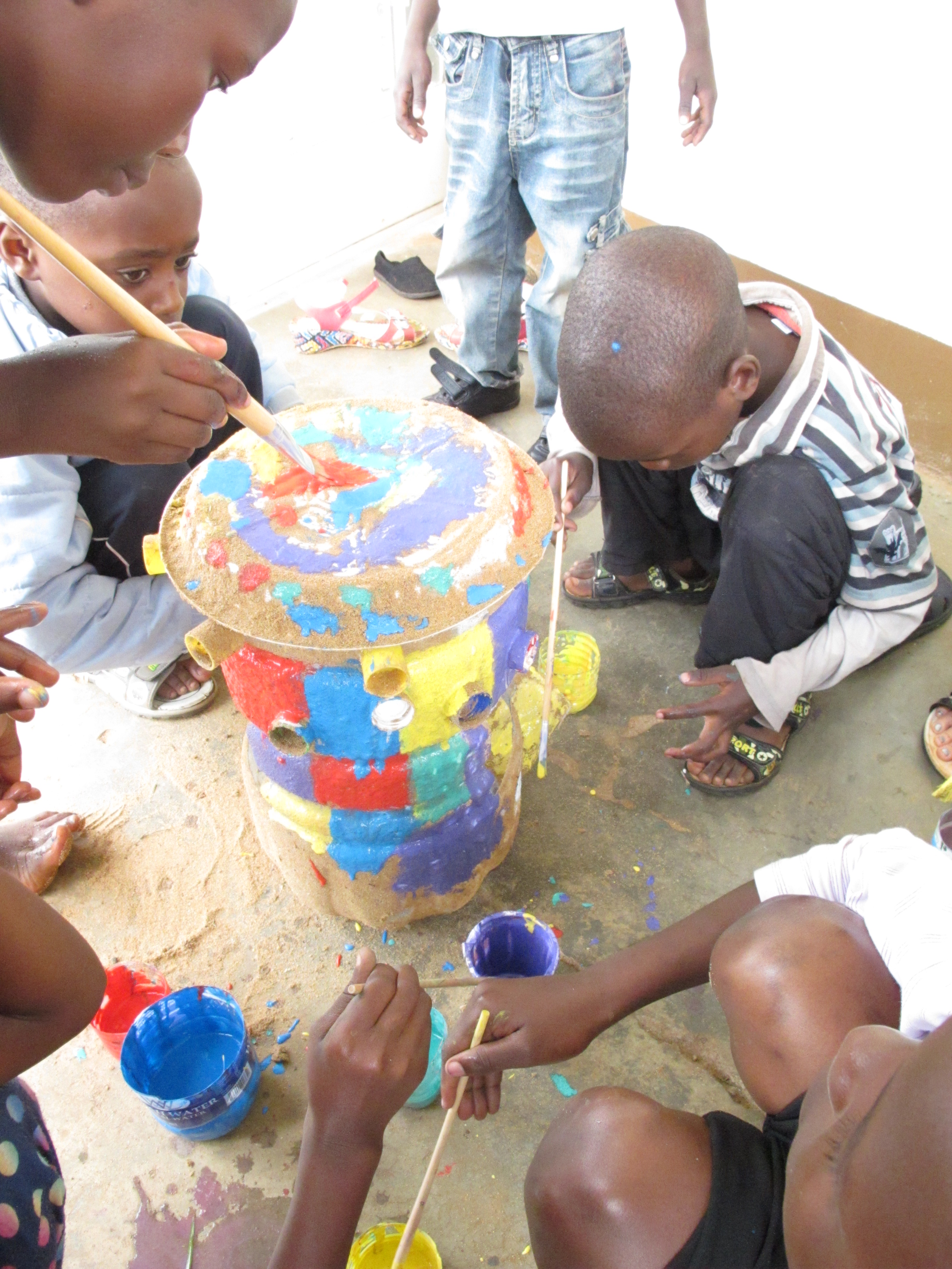 Making Bird house out of recycled materials